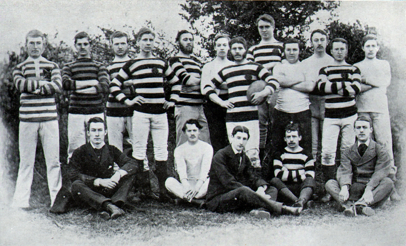 The first ever photograph of a Clifton RFC team. Back Row (L-R): W.G.Gribble, F.Allen, W.R.Webb, A.S.W.Young, W.S.Paul, F.S.Peck, C.Strachan (Captain), W.F.Bence-Jones, A.H.Allen, A.C.S.Paul, E.Phillips, H.W.Peck. Front Row: F.Morris, H.A.Francis, W.N.Tribe, T.R.Barnes, C.A.Badcocke.